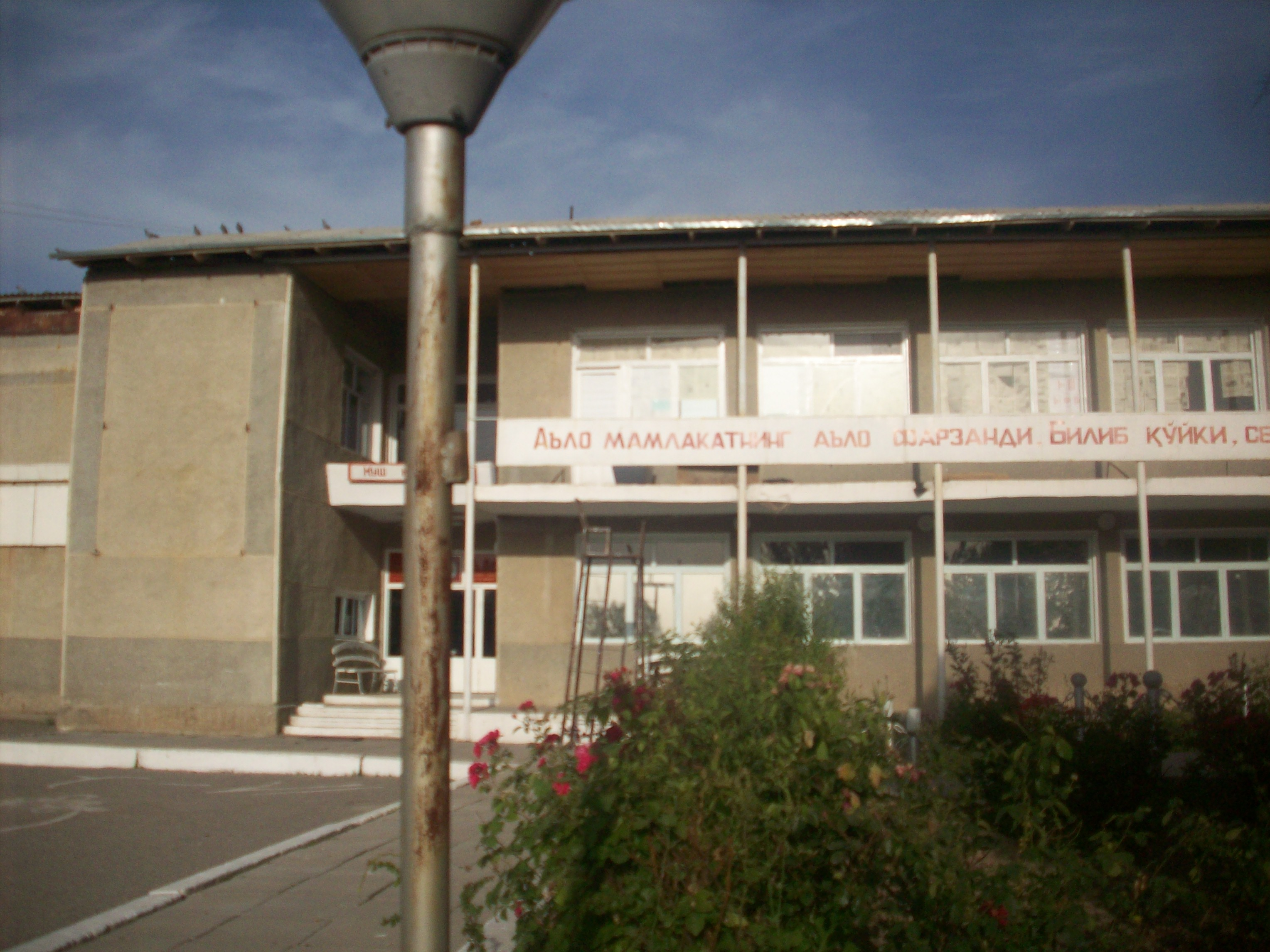 The building of the Uzbek Gymnasium in Isfana, Kyrgyzstan